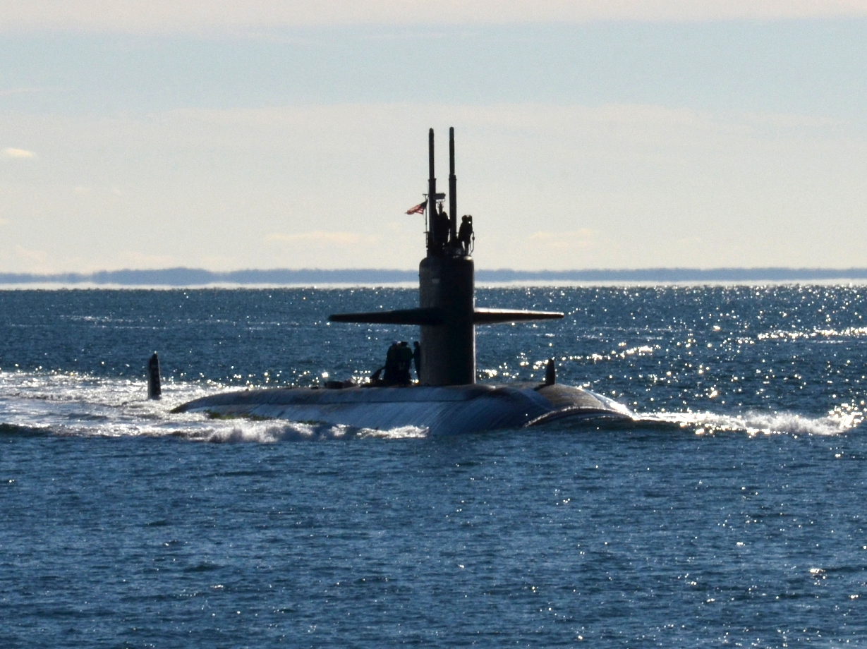 The U.S. Navy Los Angeles-class attack submarine USS Dallas (SSN-700) returns to homeport at Groton, Connecticut (USA), following its final scheduled deployment after more than 30 years in service.